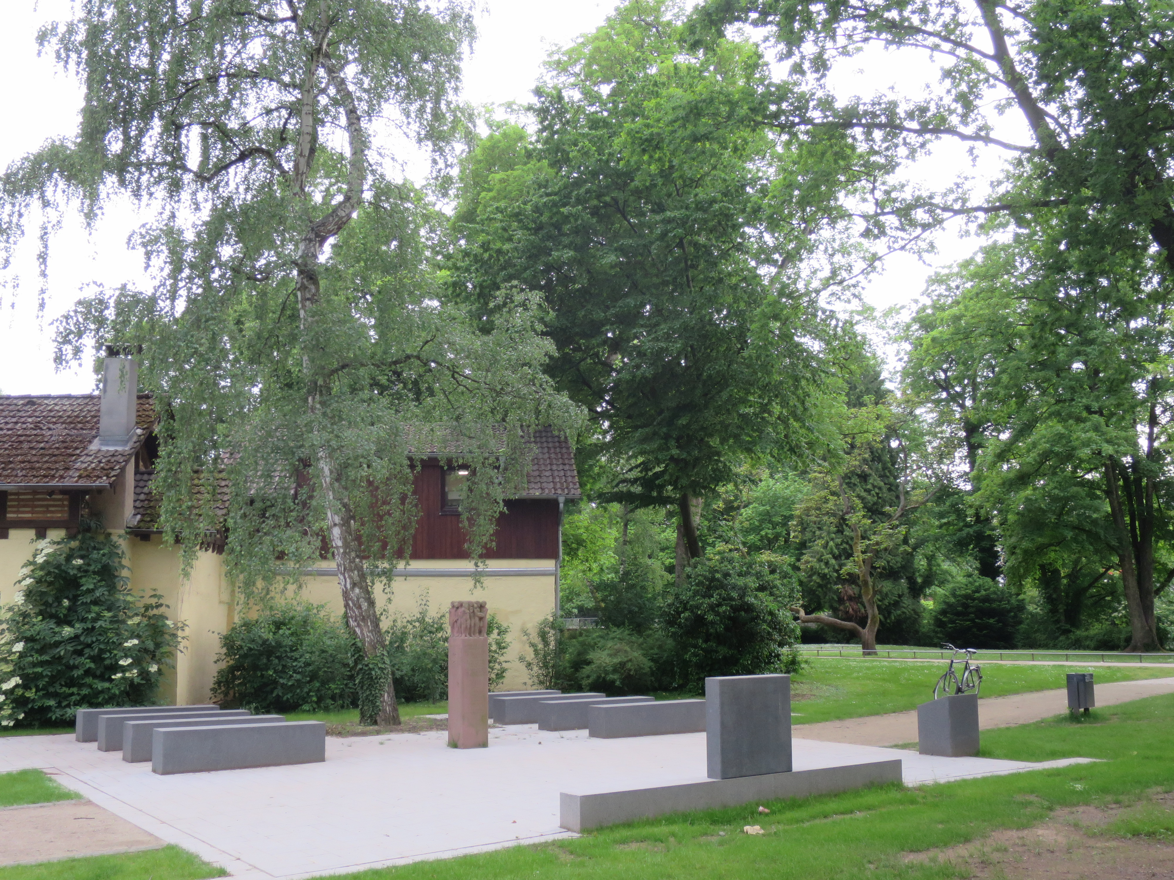 Memorial for the former synagogue at Frankfurt-Rödelheim